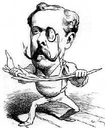 French writer, journalist and playwright Aurélien Scholl (1833-1902) by André Gill (1840-1885) in Les Hommes d'aujourd'hui, October 1878.